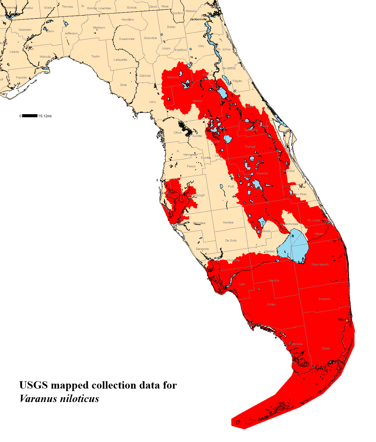 USGS Mapped collection data for Varanus niloticus